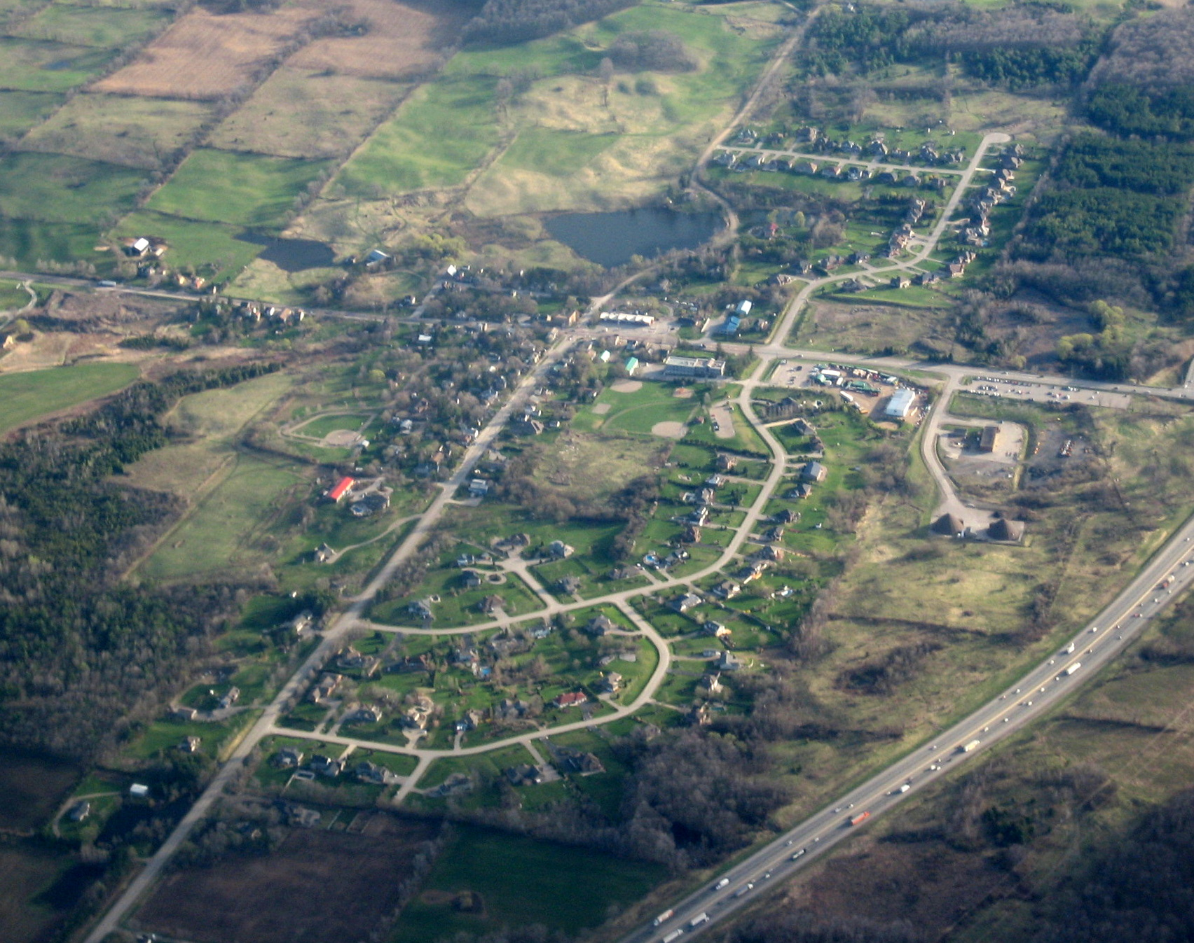 Morriston, Ontario seen from the air on approach to Pearson